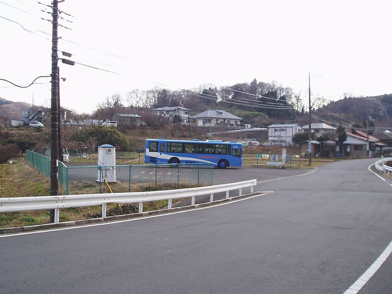 Kanachu Kamifurusawa Bus Stop